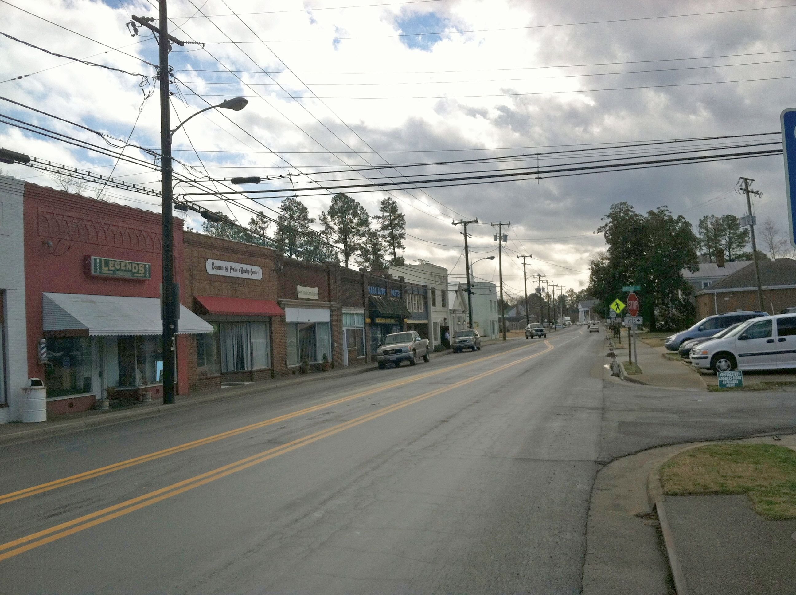 A view of Main Street in Courtland, Virginia